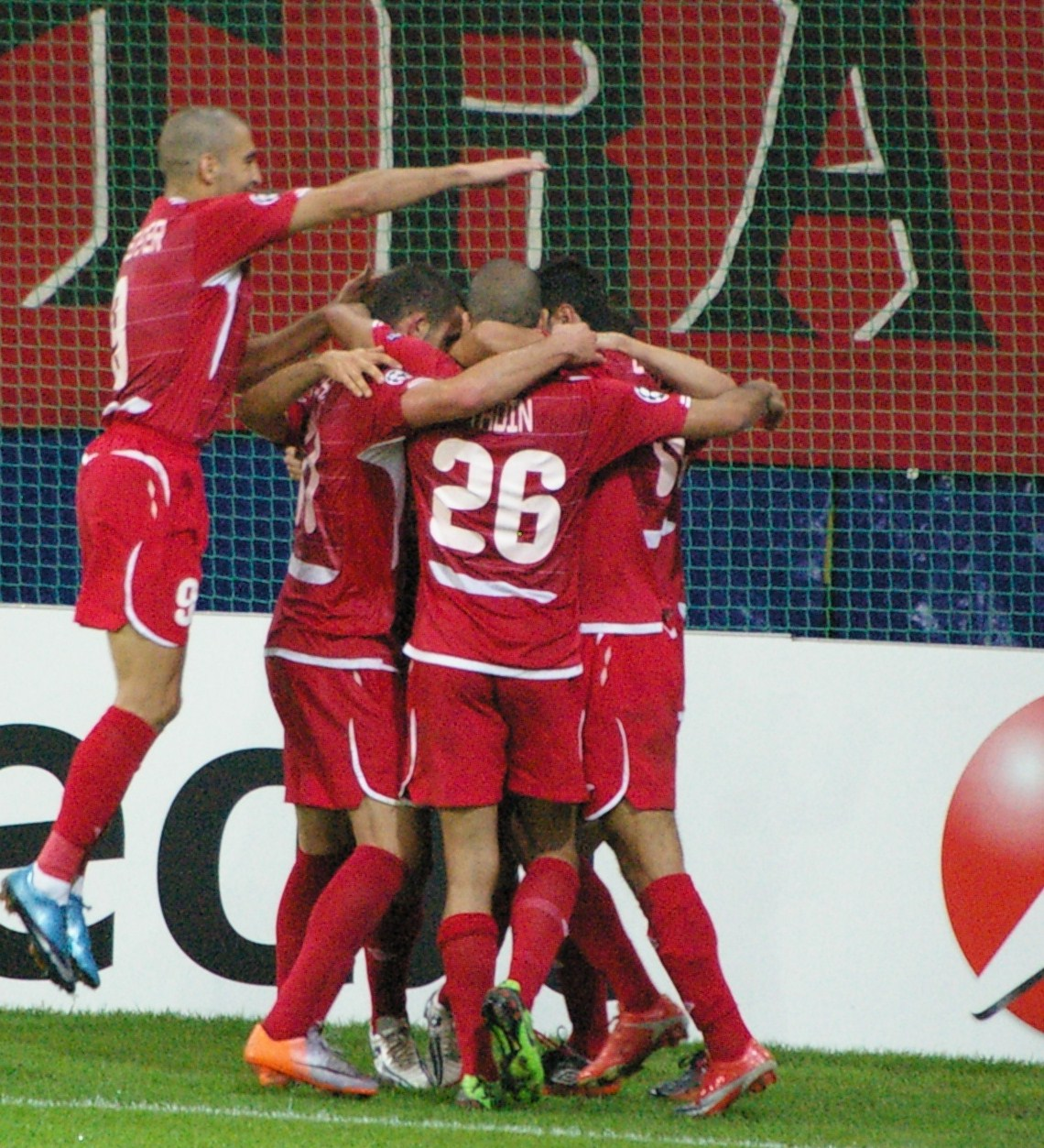 Players celebrating a goal vs. Salzburg